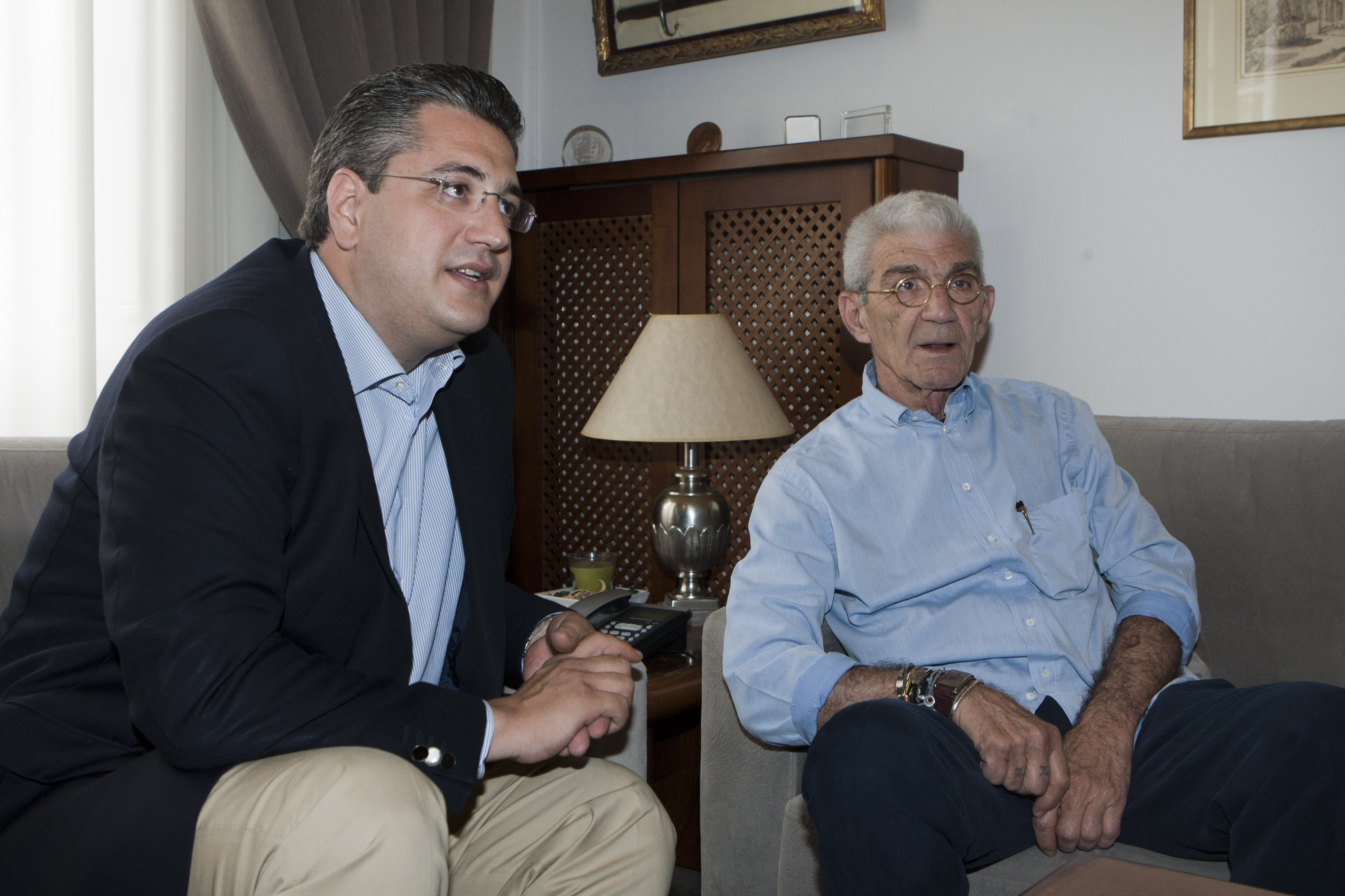 Central Macedonia governor Apostolos Tzitzikostas (l.) and Thessaloniki mayor Yannis Boutaris (r.)